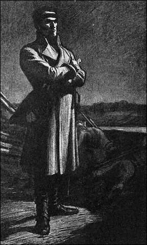 Georg Carl von Döbeln